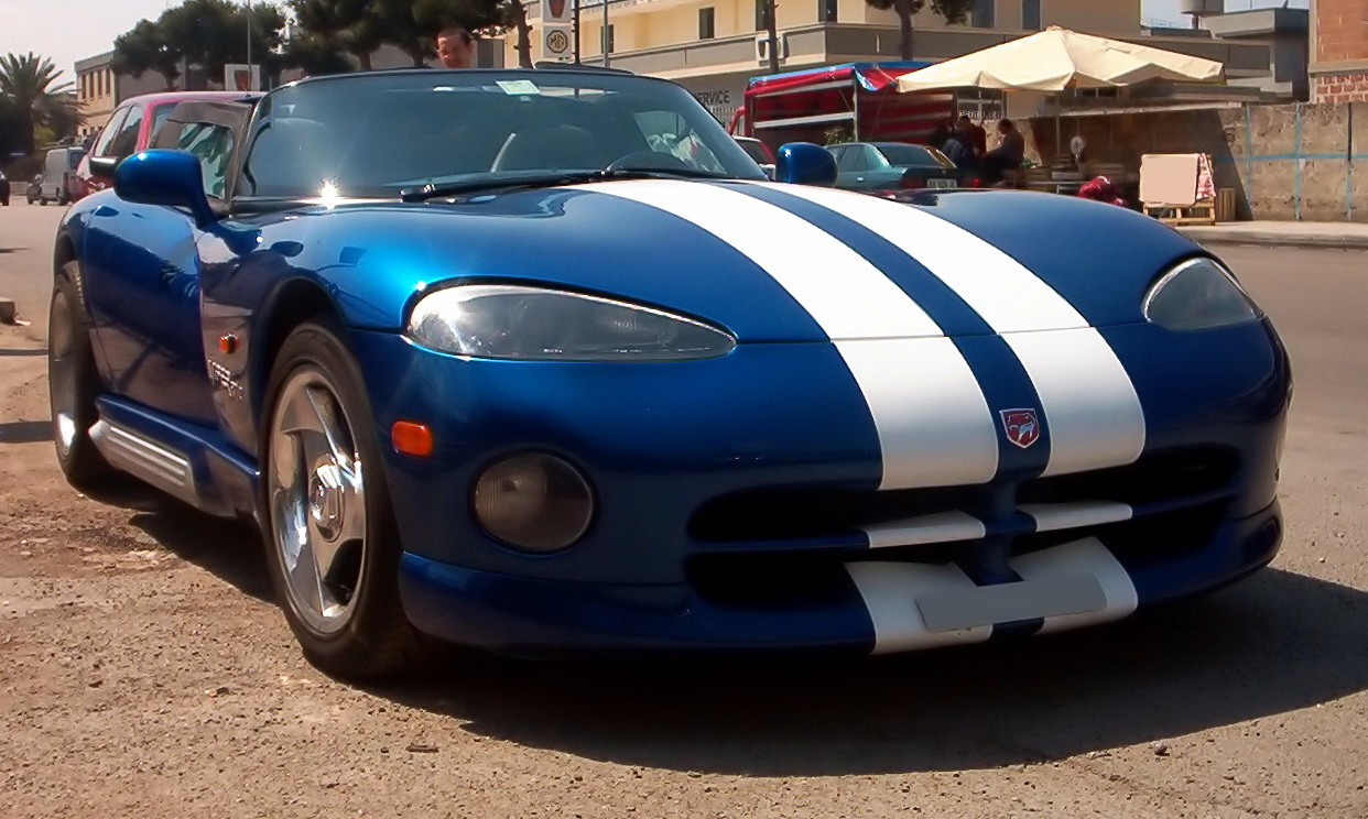 Dodge Viper. Photo taken in Italy, on 2003-04-19.